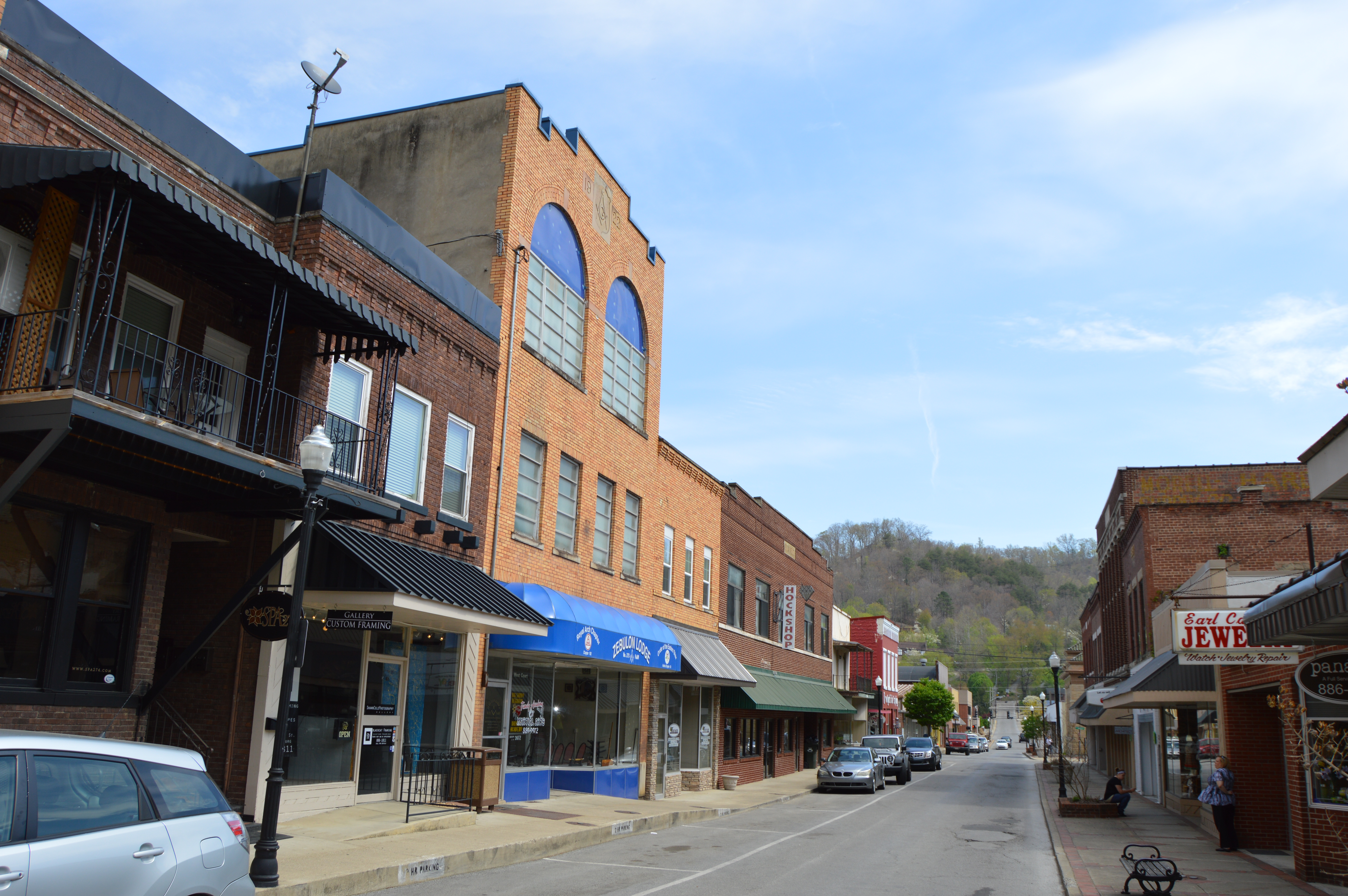 Looking east on Court Street in downtown Prestonsburg, Kentucky, United States. Photo is taken just east of Front Street.